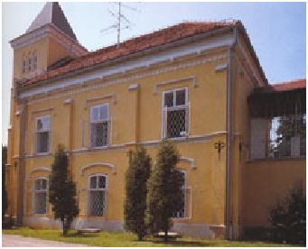 Bajnski Dvori castle (bajnai Both, Battyany, Festetics, Erdődy families).